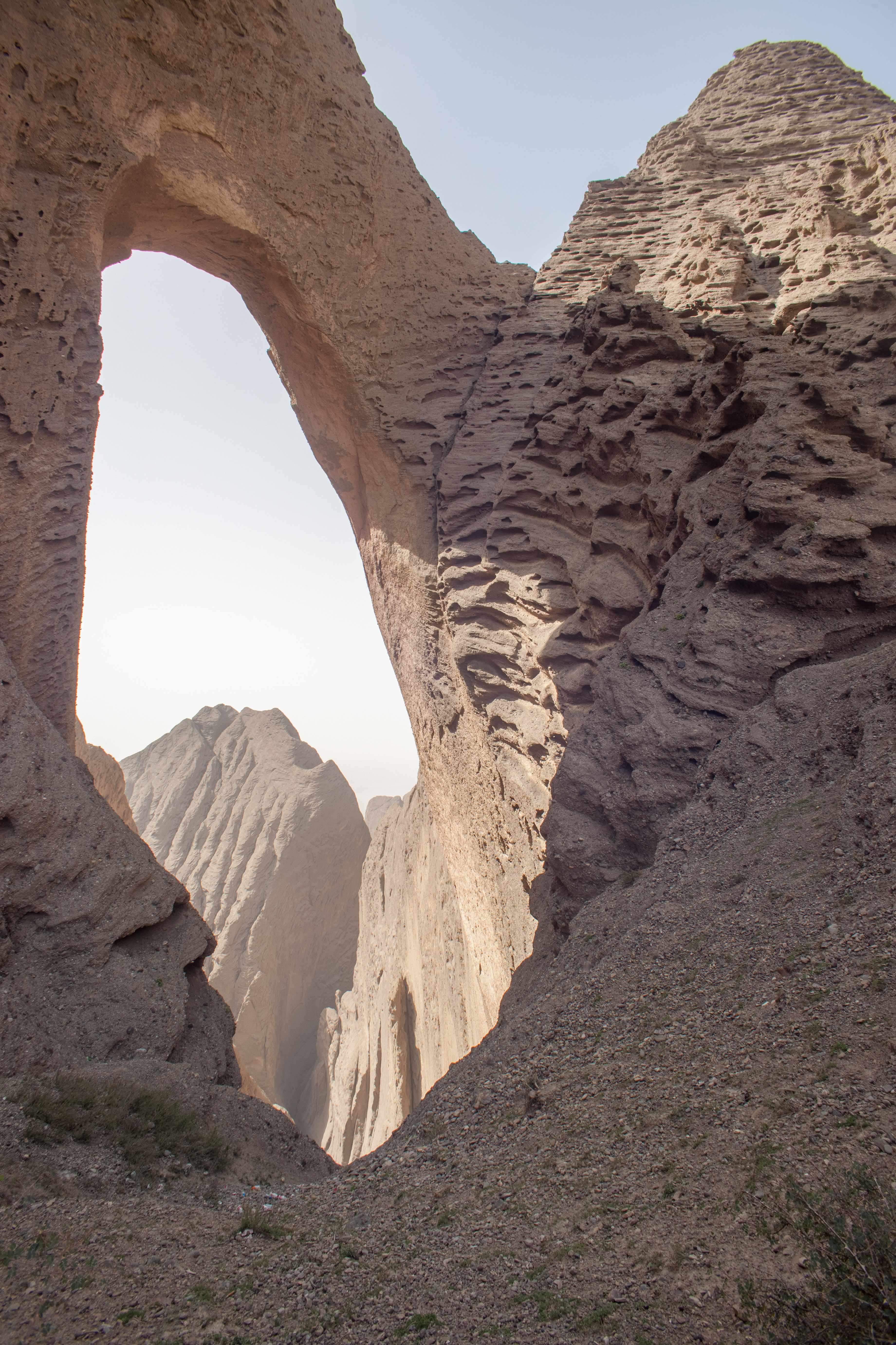 Shipton's Arch, in Xinjiang (China) - the world's highest natural arch. Taken from the base of the rubble pile, HDR to compensate for difficult lighting.